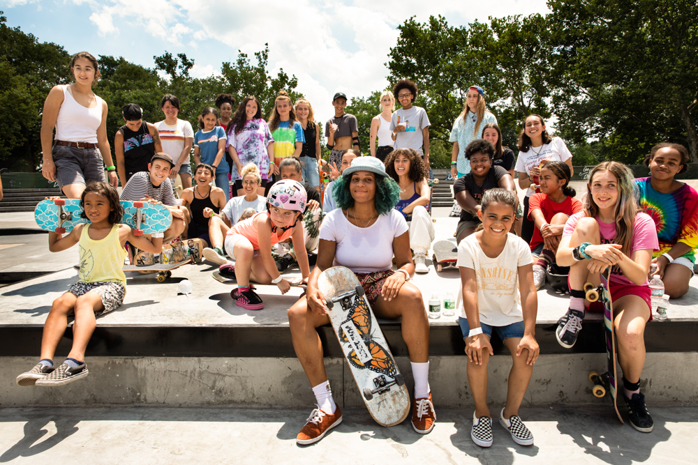 Nike Go Play Day - Skate Kitchen and Quell all girls skateboarding meet up hosted by Leo Baker - At Flushing Meadows Skate Park - Maloof Skate Park